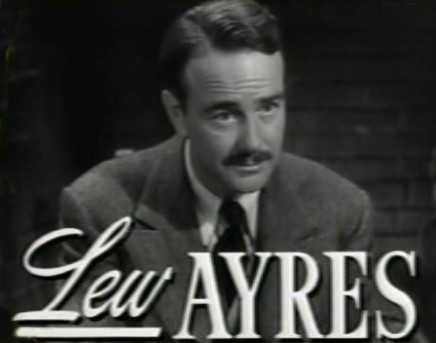 Cropped screenshot of Lew Ayres from the trailer for the film Johnny Belinda